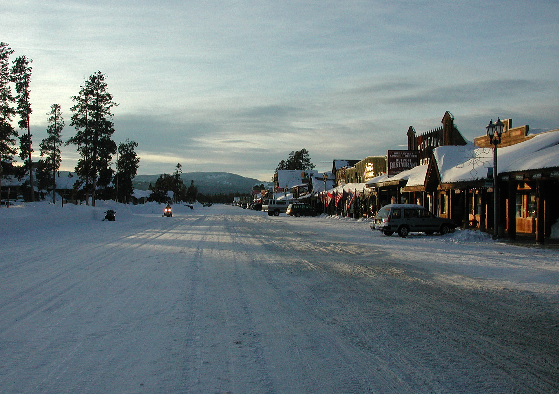 Yellowstone Avenue in West Yellowstone, Montana, looking west near sundown